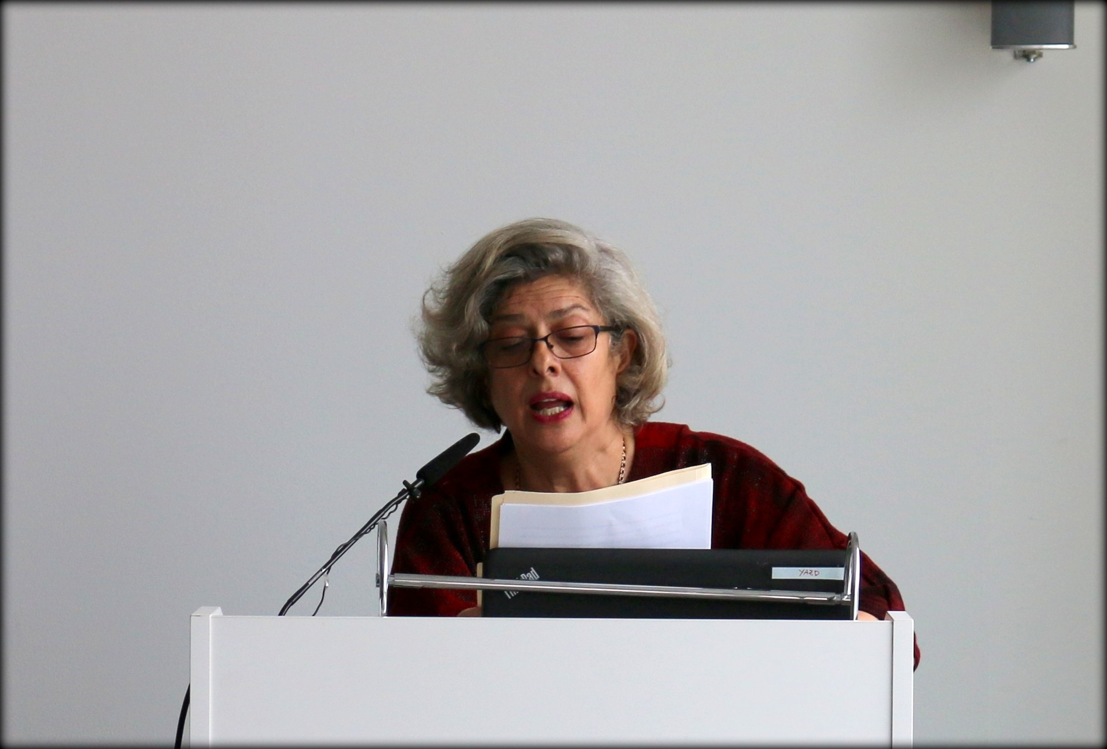 Parvaneh Pourshariati - Sasanian-Persia specialist 2019 - Photo by Persian Dutch Network